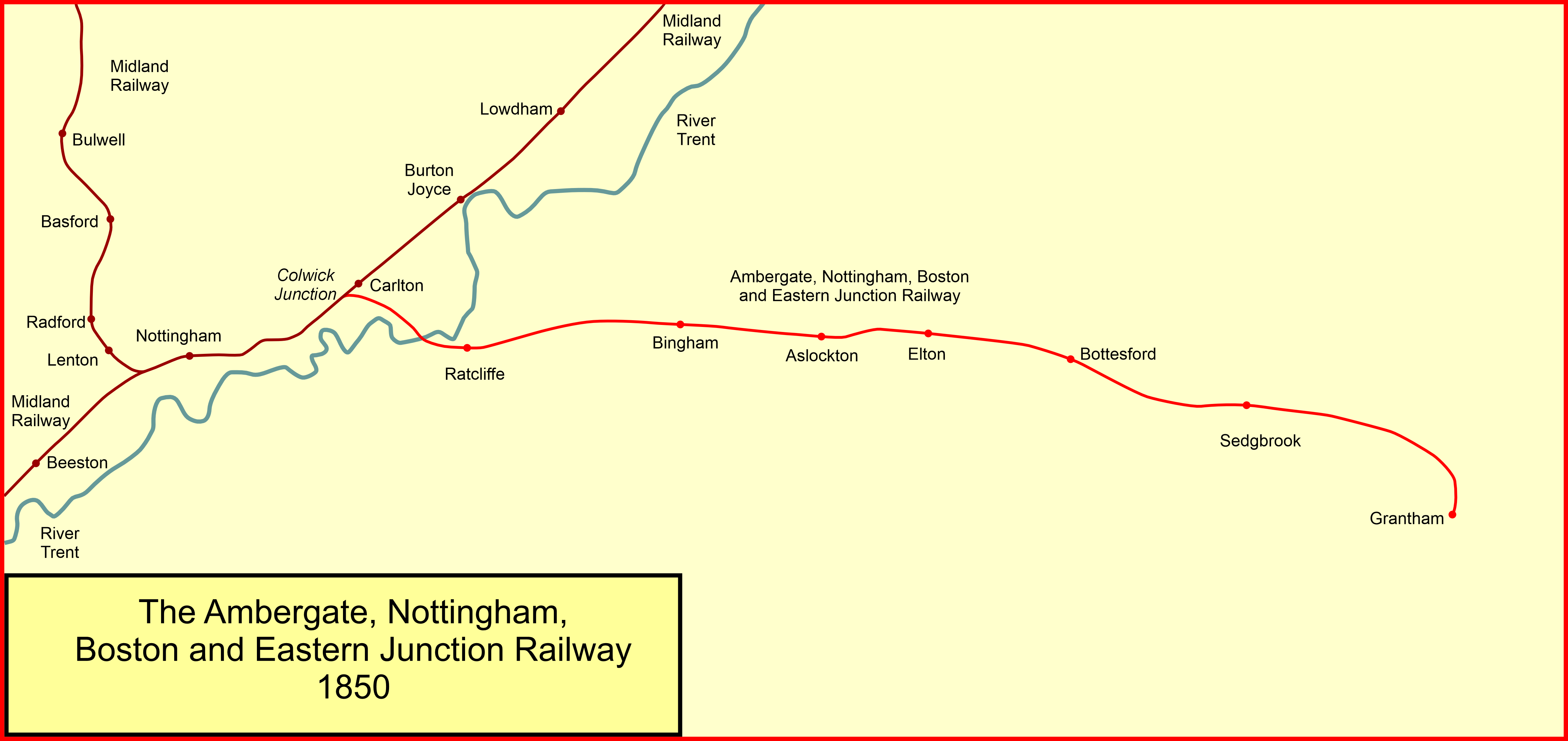 System map of the Nottingham and Grantham railway line in England in 1850, formally known as the Ambergate, Nottingham, Boston and Eastern Junction Railway